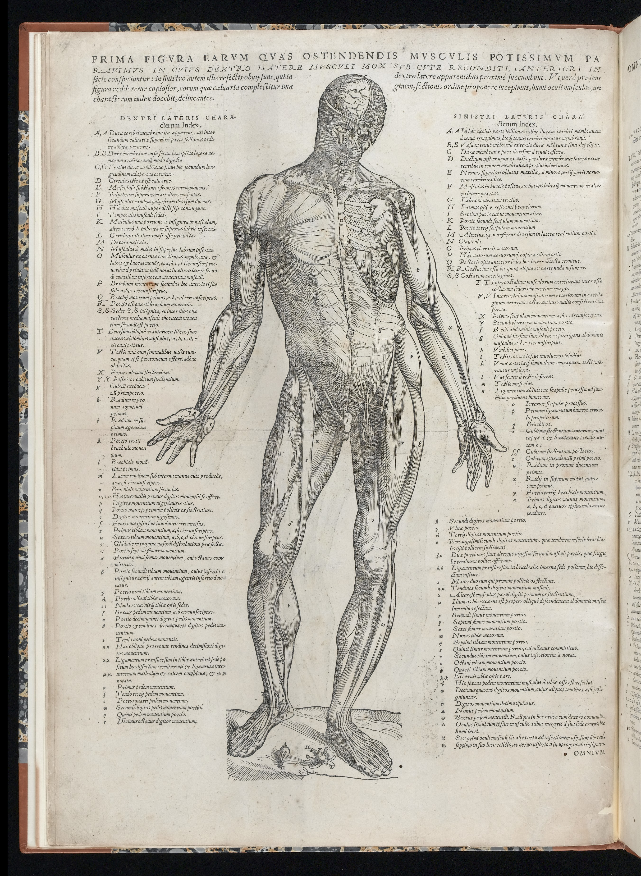 Andreas Vesalius Rare Books Keywords: Anatomy; Jan Stephan van Calcar